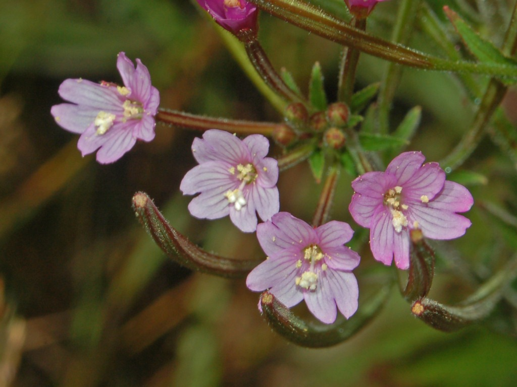 Epilobium parviflorum - Parco dell'Antola, Genova, Italy